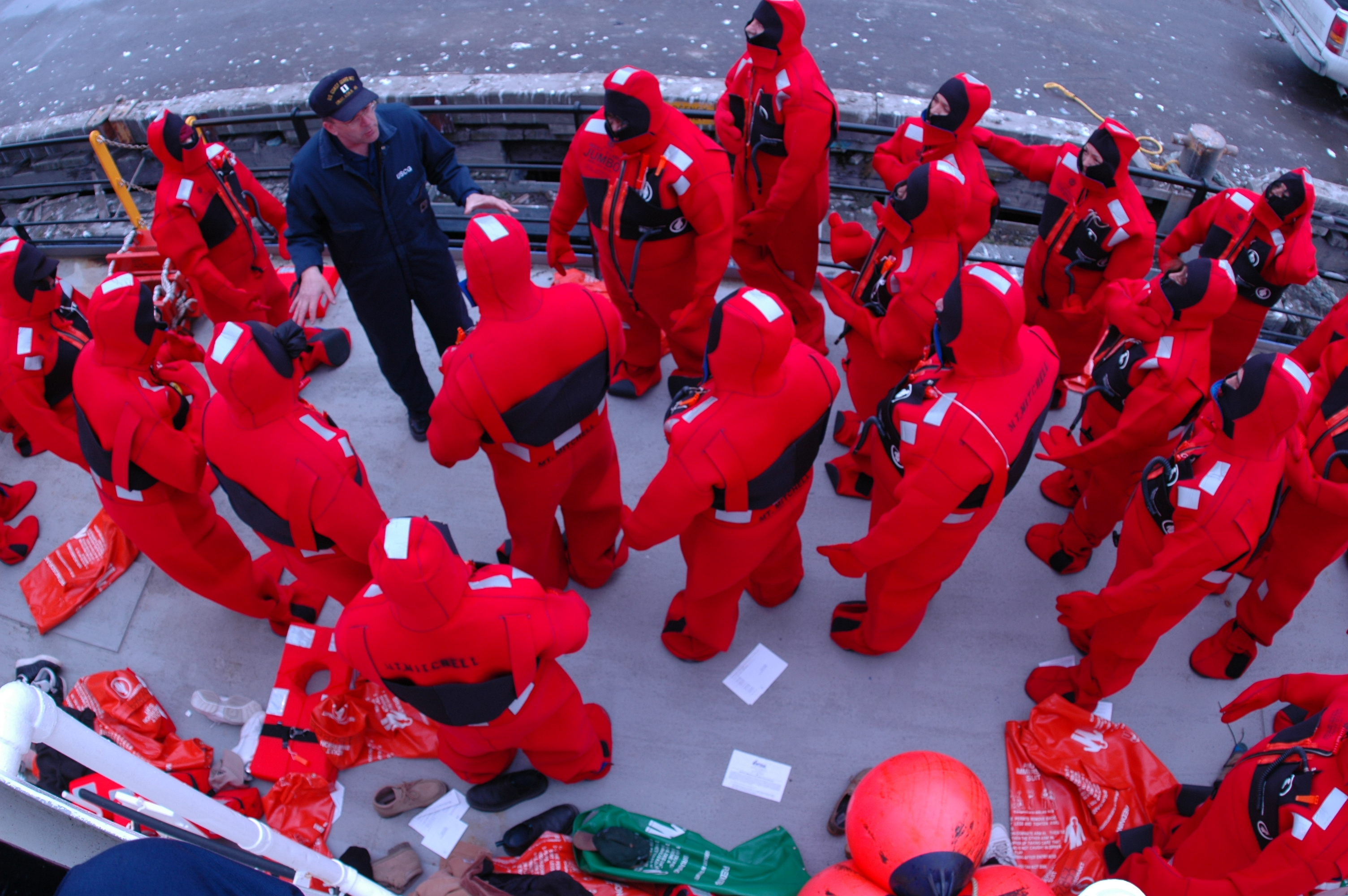 Selendang Ayu cleanup crews aboard the M/V Mt. Mitchell receive survival training in Unalaska, Alaska (Text by USCG)